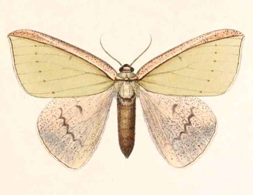 « Limbatochlamys rosthorni » = Limbatochlamys rosthorni - male